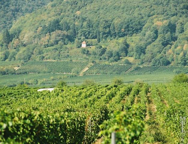 vineyard in Rhineland-Palatinate, Germany